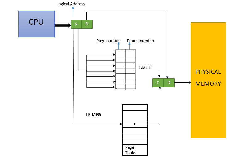 Working flow of a TLB